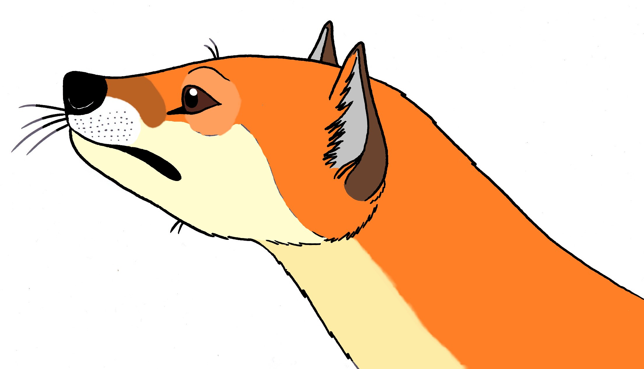 Reconstruction of head of Hesperocyon